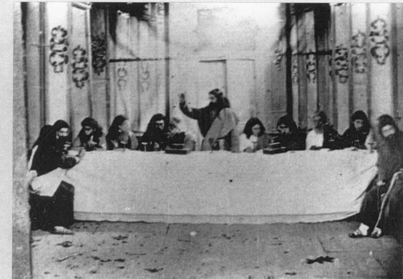 "The last supper" in the "Principal" theatre.